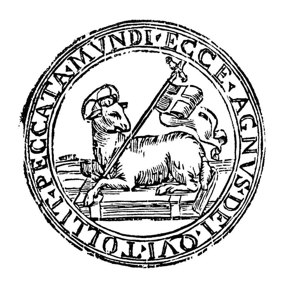 Rite and use of sacred waxes commonly called Agnus Dei.